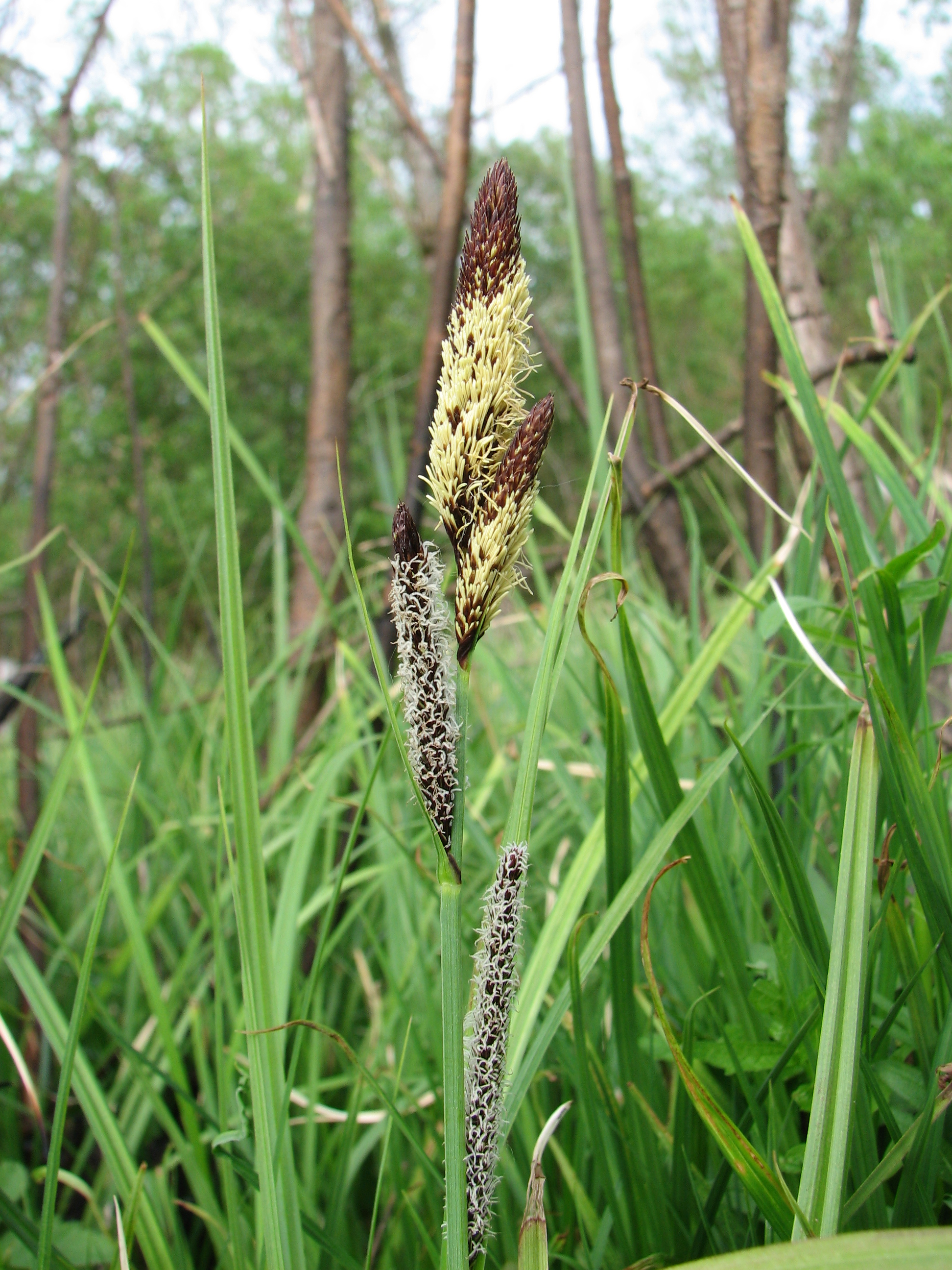 Carex acutiformis. Gatchina, Leningrad oblast, Russia